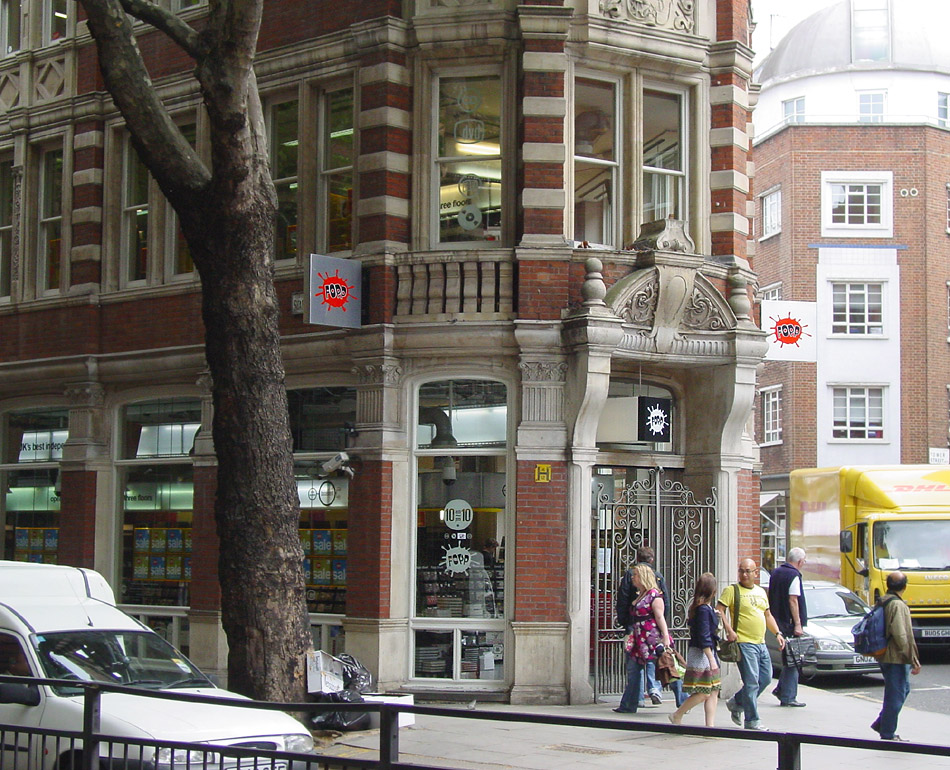 Fopp store on the corner of Shaftesbury Avenue and Earlham Street (address 1 Earlham Street), London WC2. Photo taken from Shaftesbury Avenue.